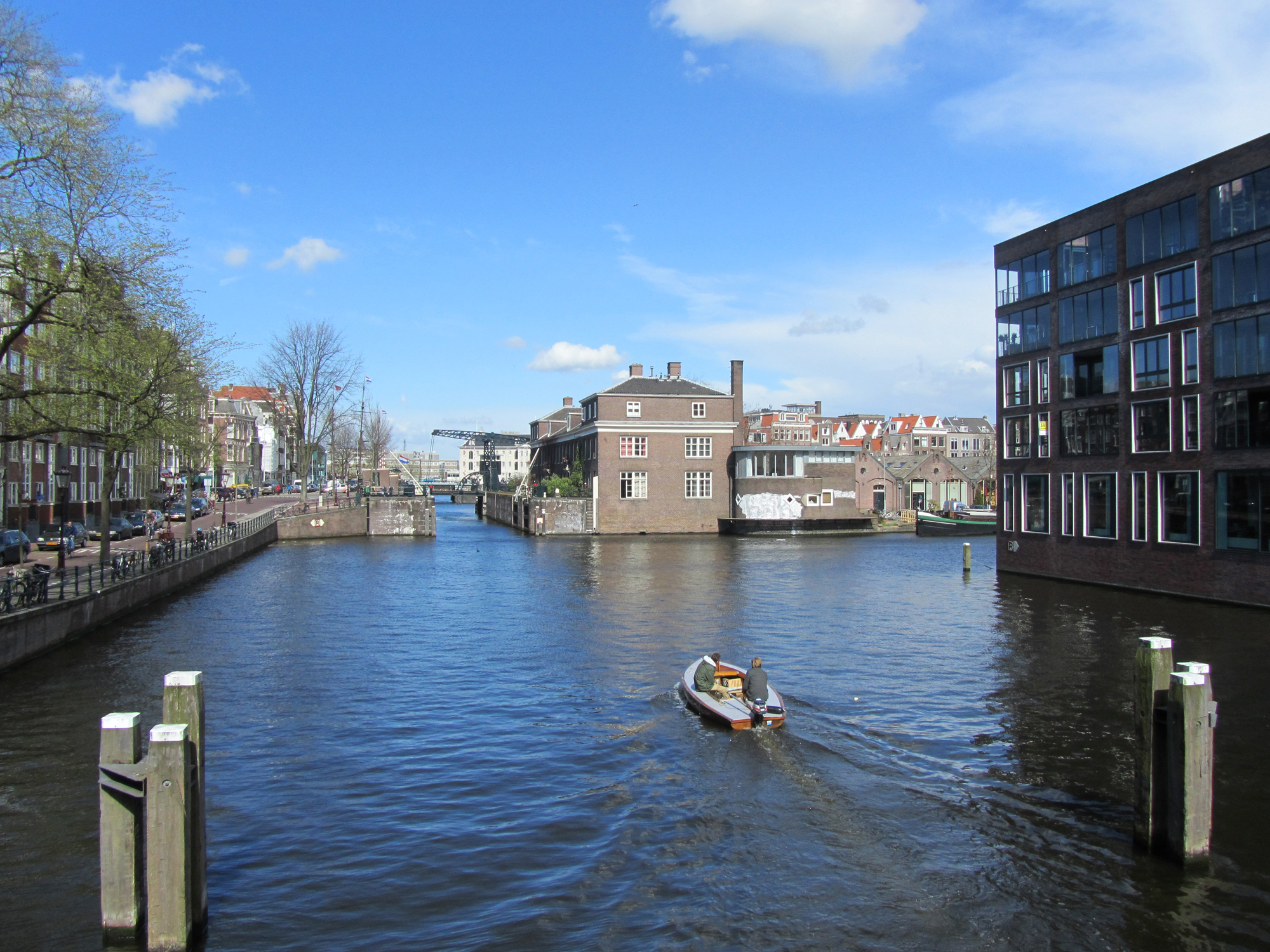 Nieuwe Herengracht canal, looking north towards the Scharrebiersluis sluice gates and the cast-iron bridge beyond that. On the right is the western entrance of Entrepotdok canal.